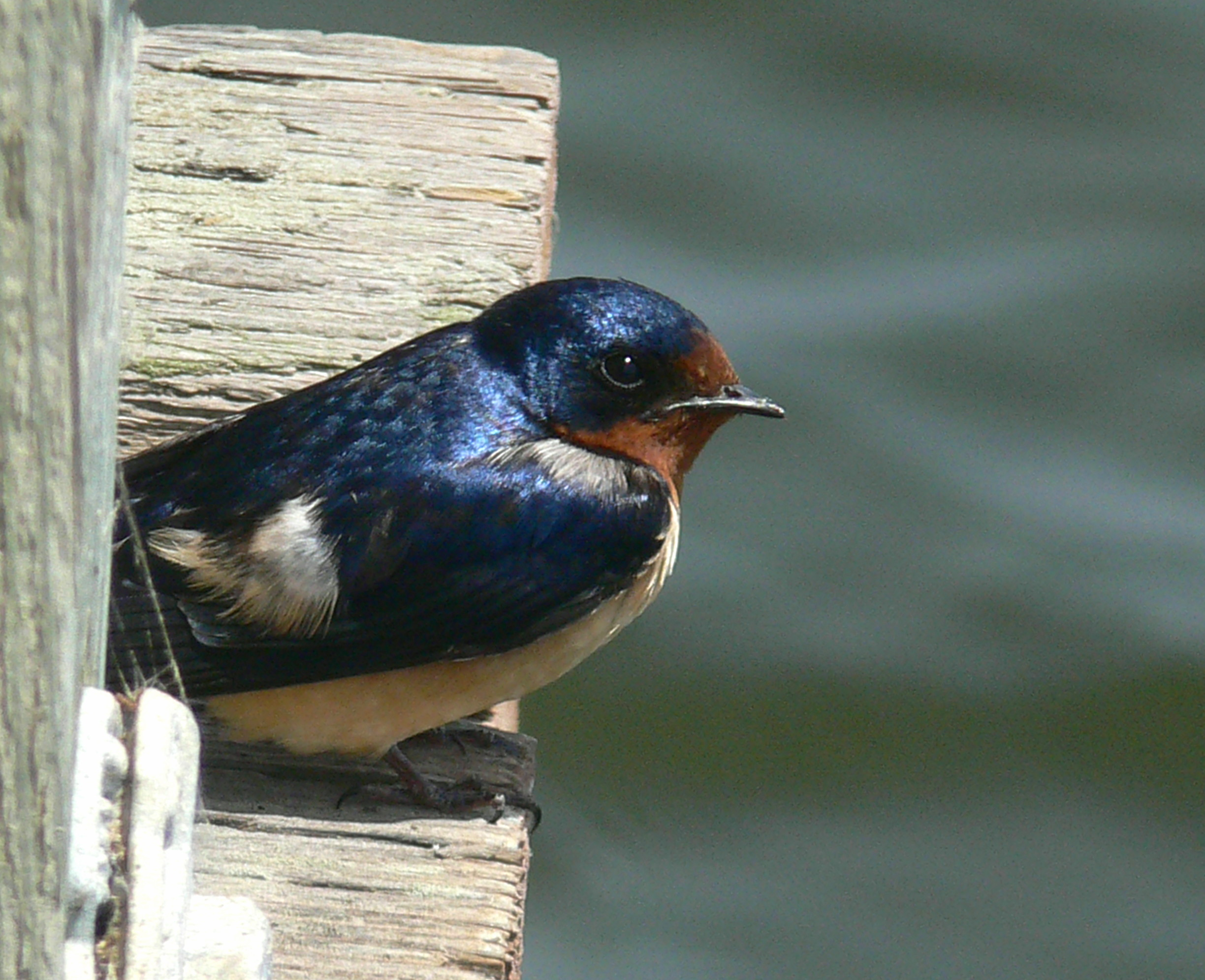 Hirundo rustica Sitting on the edge of the pier.